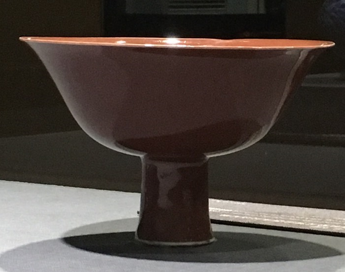 this work is exhibited in National Palace Museum